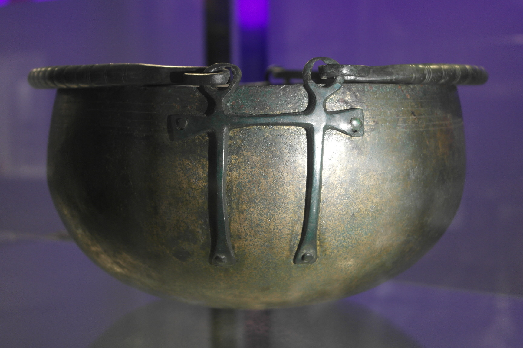 So-called Hallstatt cauldron, excavated in Kessel, now in the archaeological collection of the Limburgs Museum in Venlo, the Netherlands.